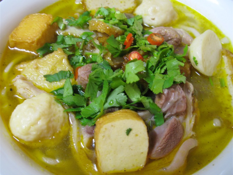 Vietnamese banh canh noodle soup with pork, fish balls, prawn cakes and fried tofu.